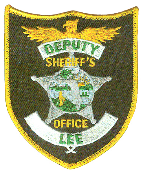 Lee County, FL Sheriff patch